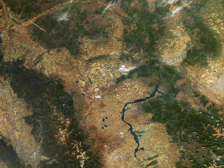 Wild fires and/or agricultural fires burned in south central Russia on October 10, 2009. The Moderate Resolution Imaging Spectroradiometer (MODIS) on NASA’s Aqua satellite captured this true-color image the same day. Red outlines indicate hotspots where MODIS has detected unusually high surface temperatures associated with active fires. Not all of the fires emit discernible smoke, but the smokes plumes that are visible consistently blow toward the east. The fires burn not far from Nazarovo (middle top) and the Yenisey (or Yenisei) River (lower right).